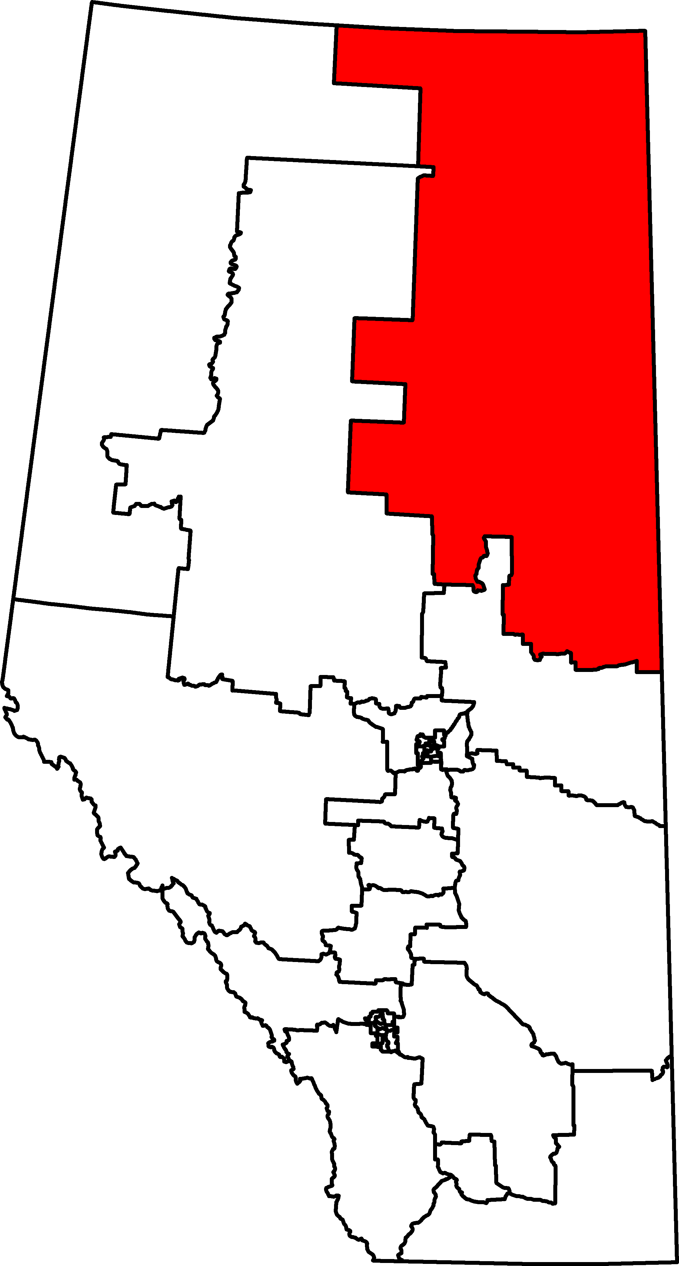 Federal Electoral District in Alberta, Canada as of the 2013 Representation Order.